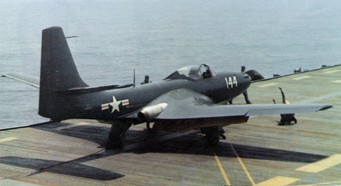 A U.S. Navy McDonnell FH-1 Phantom of Fighter Squadron 17A (VF-17A) "Phantom Fighters" taxis to the catapult during carrier qualifications on the light aircraft carrier USS Saipan (CVL-48), in May 1948.